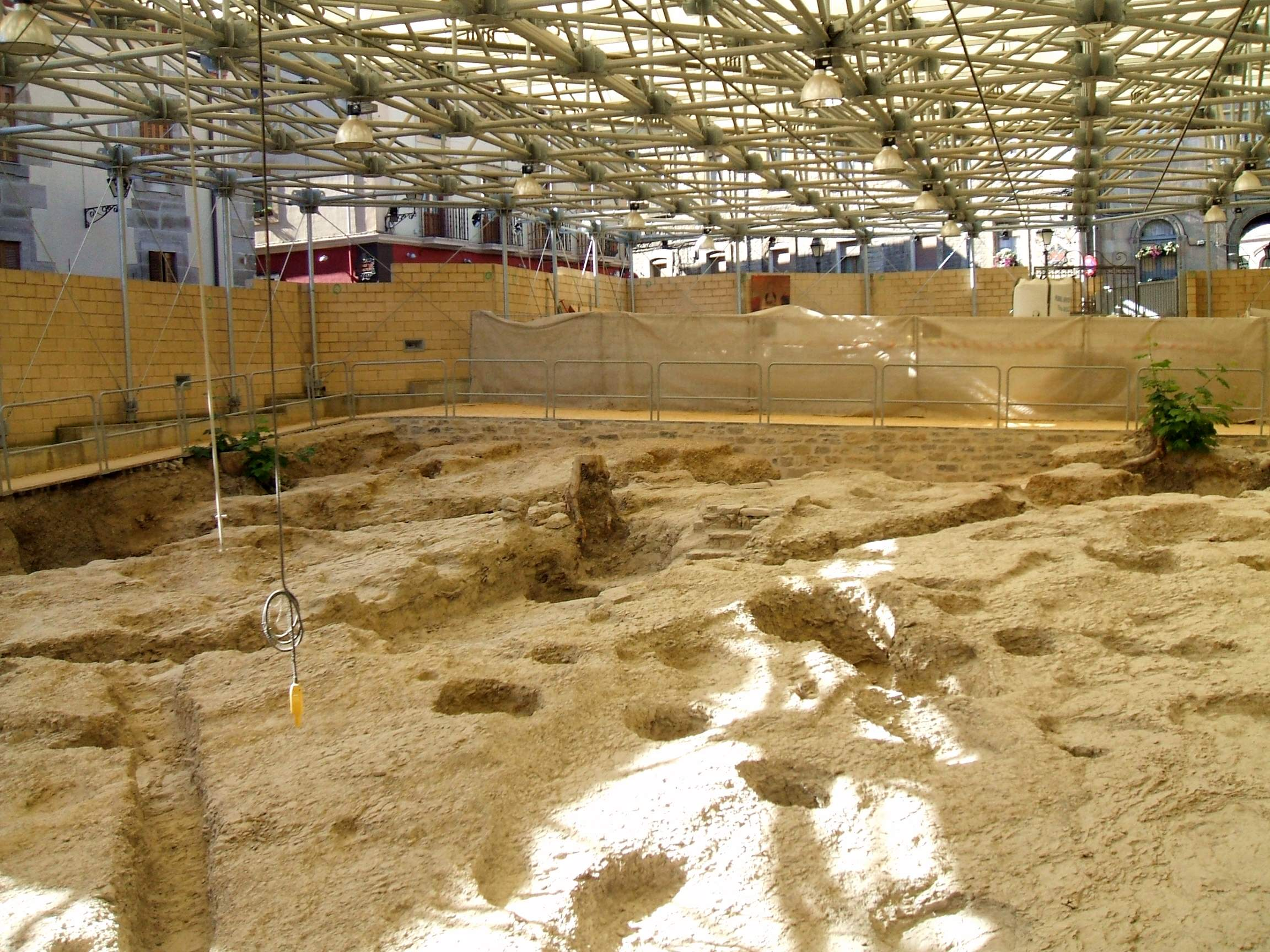 Excavaciones arqueológicas en la plaza de Santa Máría, junto a la Catedral de Santa María (Catedral Vieja) de Vitoria-Gasteiz